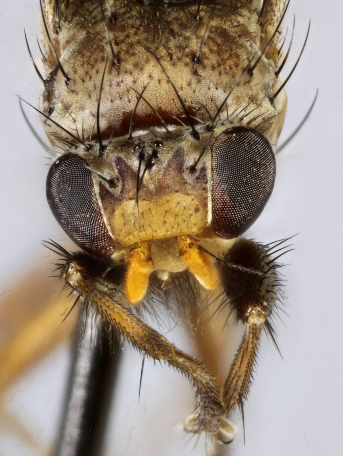 Suillia imberbis, Farchynys, North Wales, March 2014